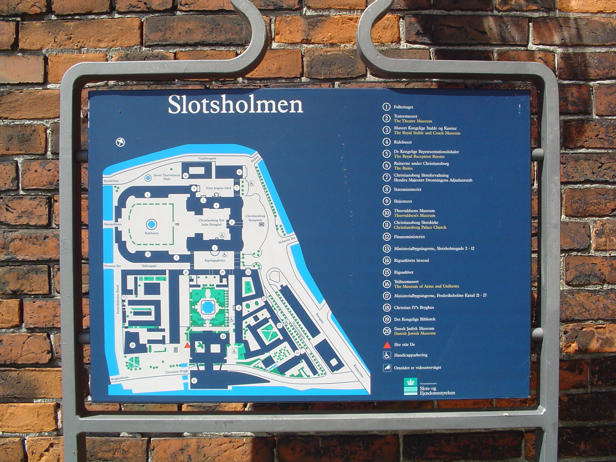 The Danish Royal Library. Taken by user:Thue in the sommer of 2005.